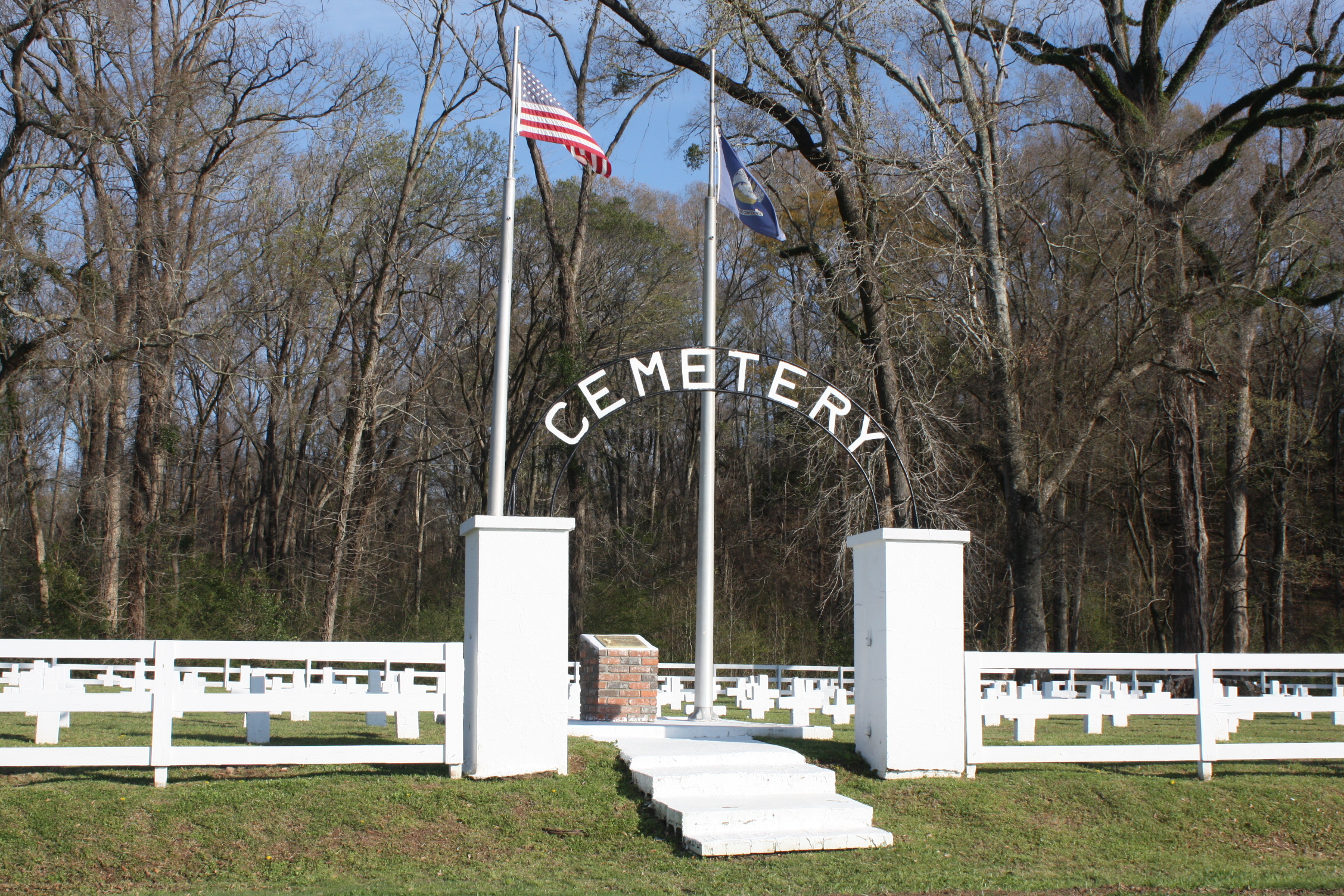 Point Lookout I, a prisoner cemetery - The memorial between the flagpoles is dedicated to the 'unknown' buried in the prison cemetery.